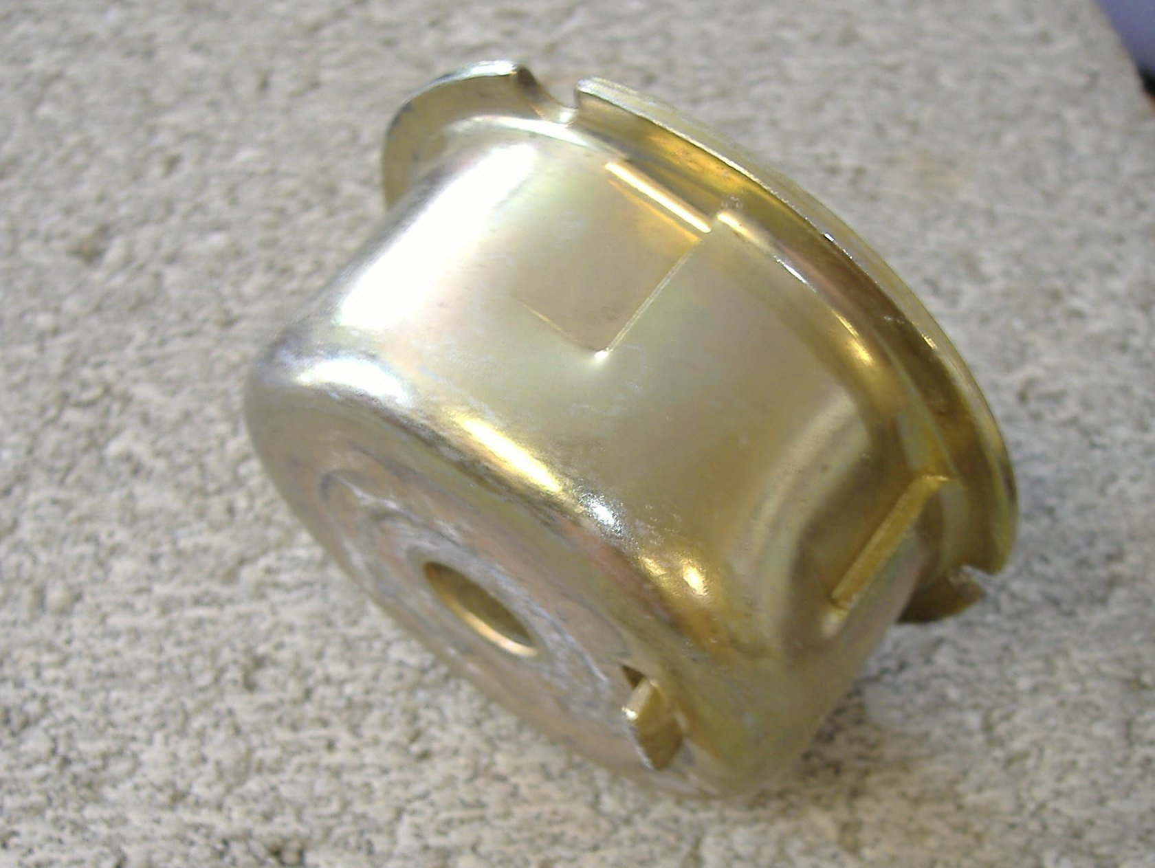 Zinc chromate conversion coating on a small steel stamping